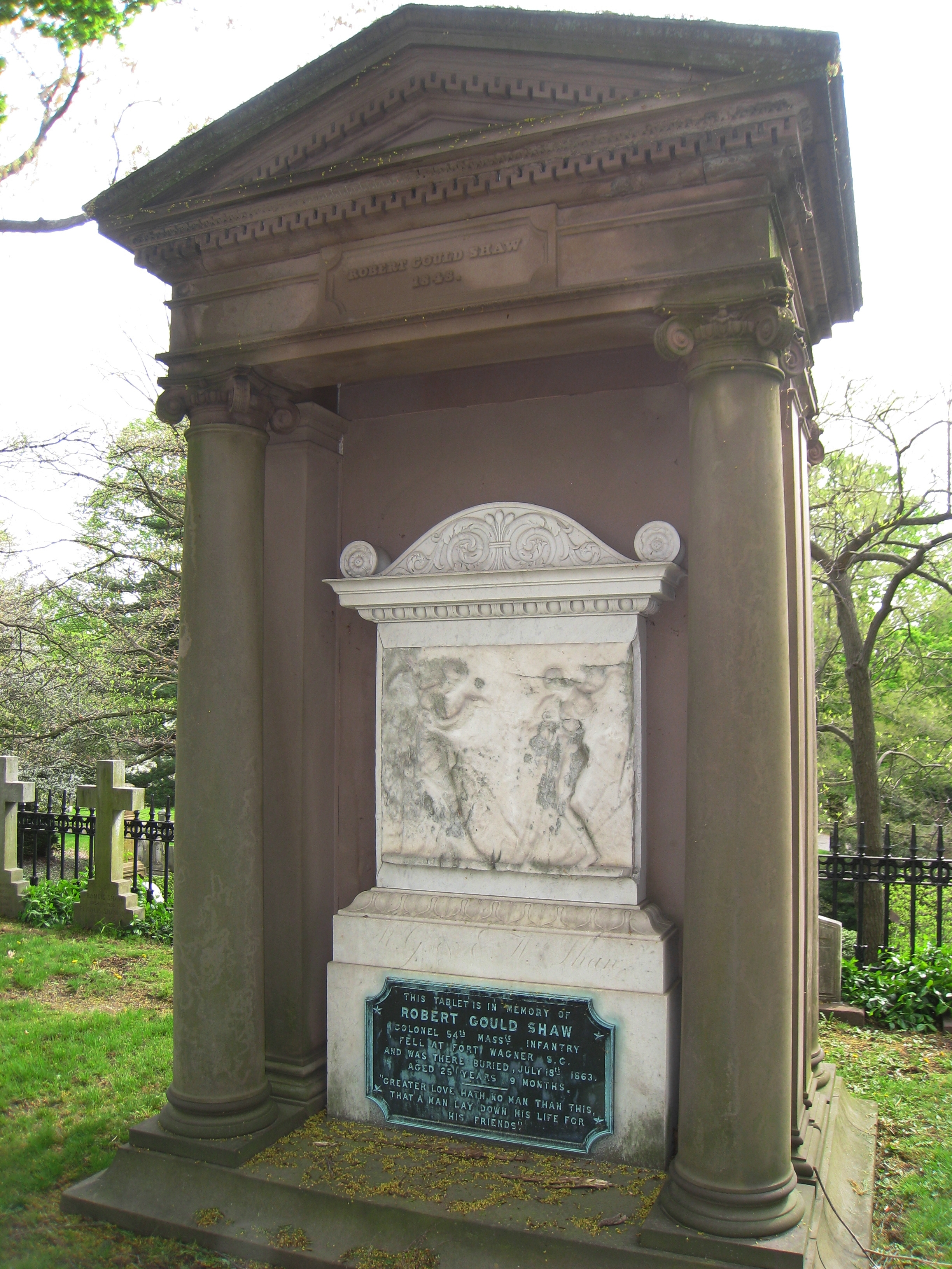 Robert Gould Shaw memorial, created in the 1840s. Brownstone enclosure with ancient classical marble insert and an added 1860s bronze plaque commemorating his grandson Col. Robert Gould Shaw, officer of the Civil War 54th Regiment of African-American soldiers. Monument designed by architect Hammatt Billings and executed by sculptor Alpheus Cary. Mount Auburn Cemetery, Cambridge, Massachusetts, USA.